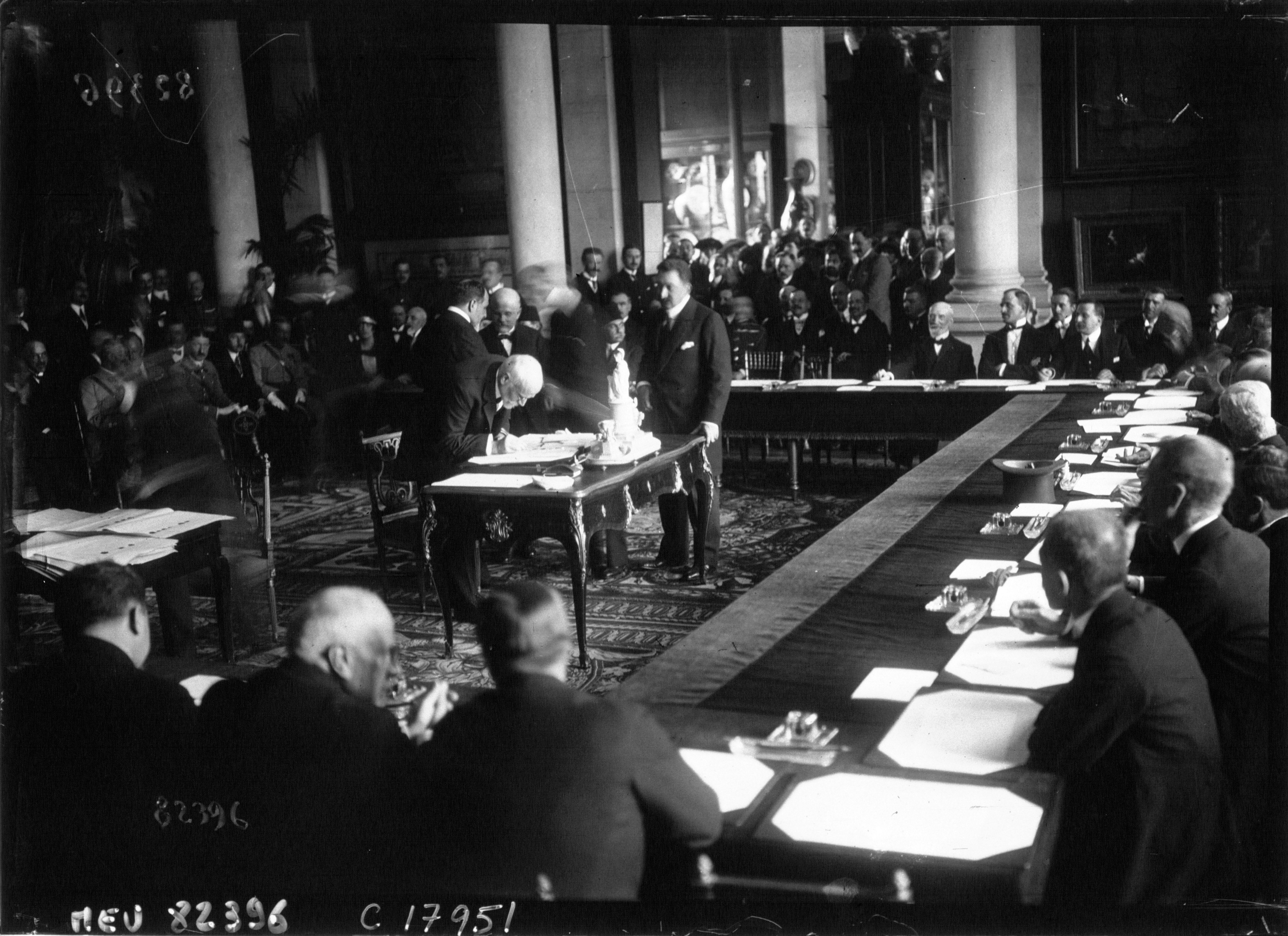 Greek prime minister Eleftherios Venizelos signing the Treaty of Sevres